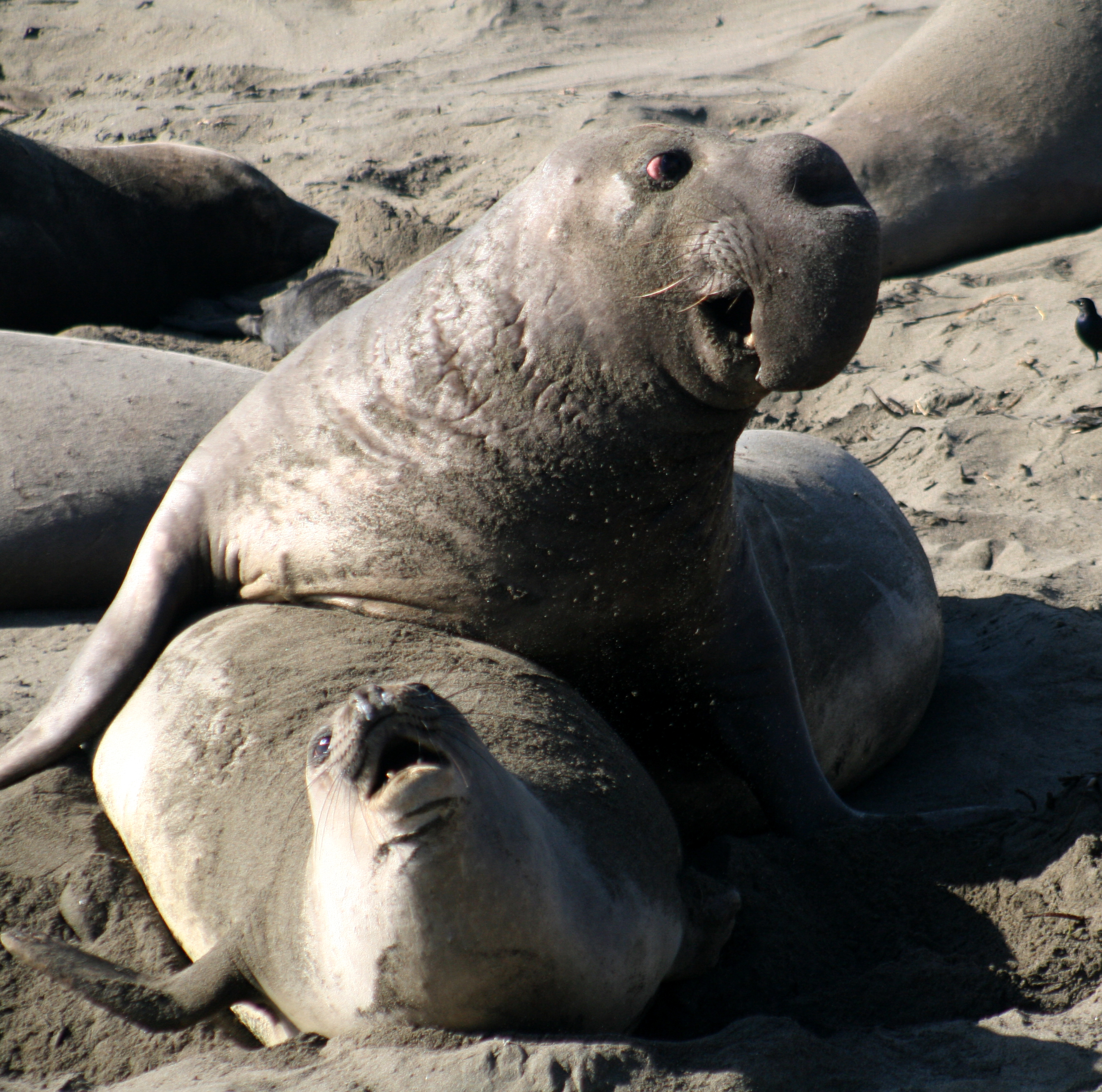 Male and female Northern Elephant Seals(Mirounga angustirostris), ,California